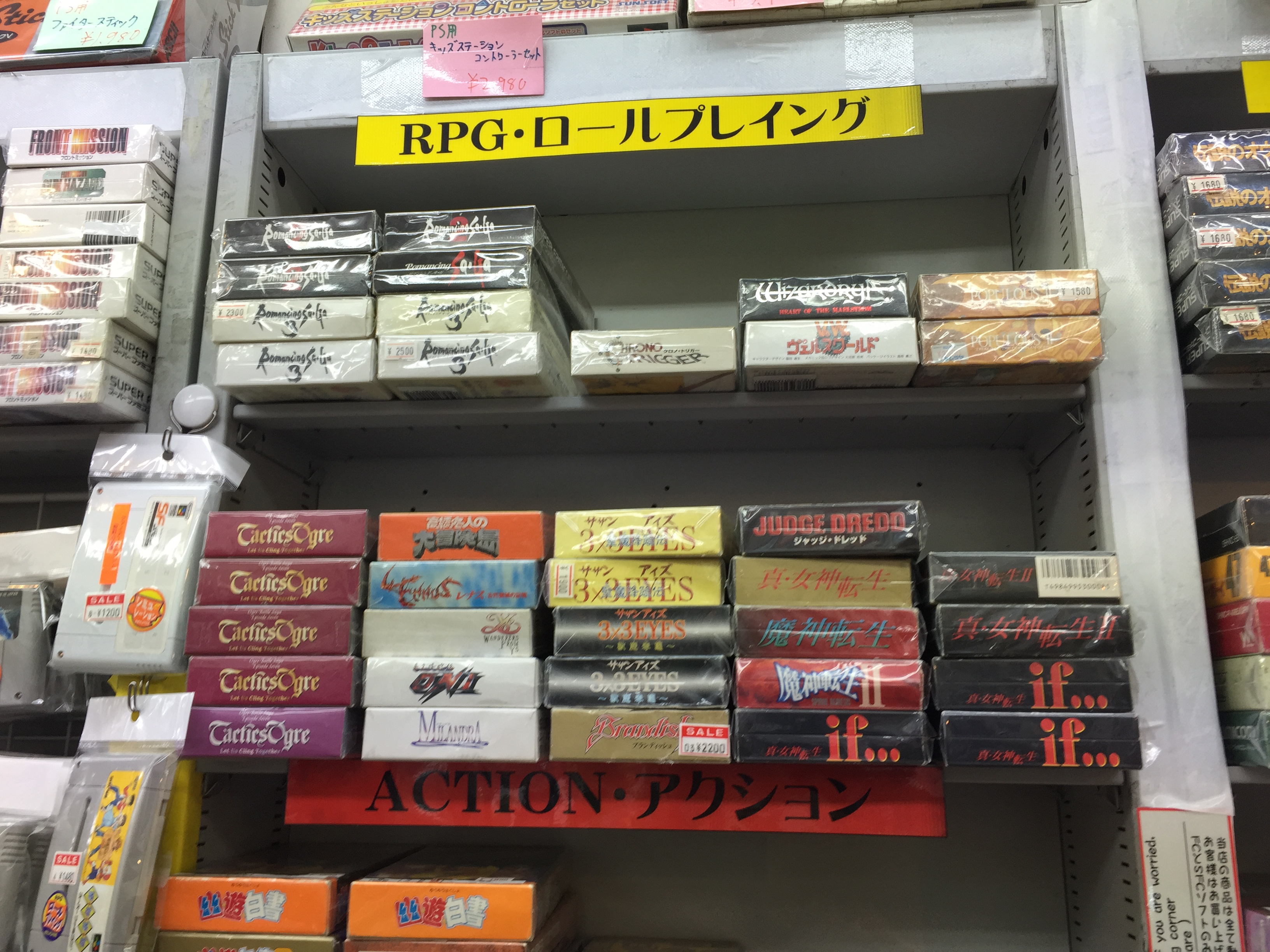 A collection of used SFC boxes on sale in Akihabara in a retro game store called "Retro Game Camp".